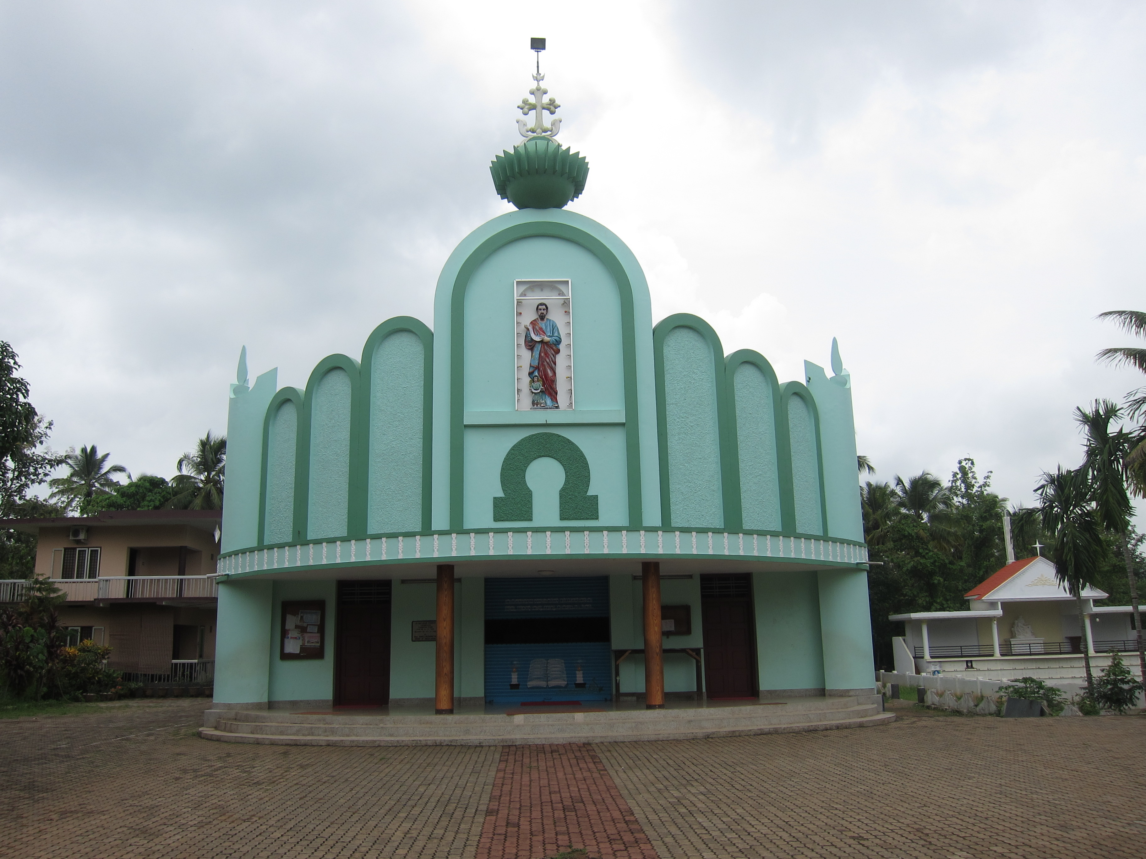 Thumbur St. Mathew's Church, Irinjalakuda Diocese, Thrissur District തുമ്പൂർ സെന്റ് മാത്യൂസ് ചർച്ച് , ഇരിങ്ങാലക്കുട രൂപത, തൃശ്ശൂർ ജില്ല